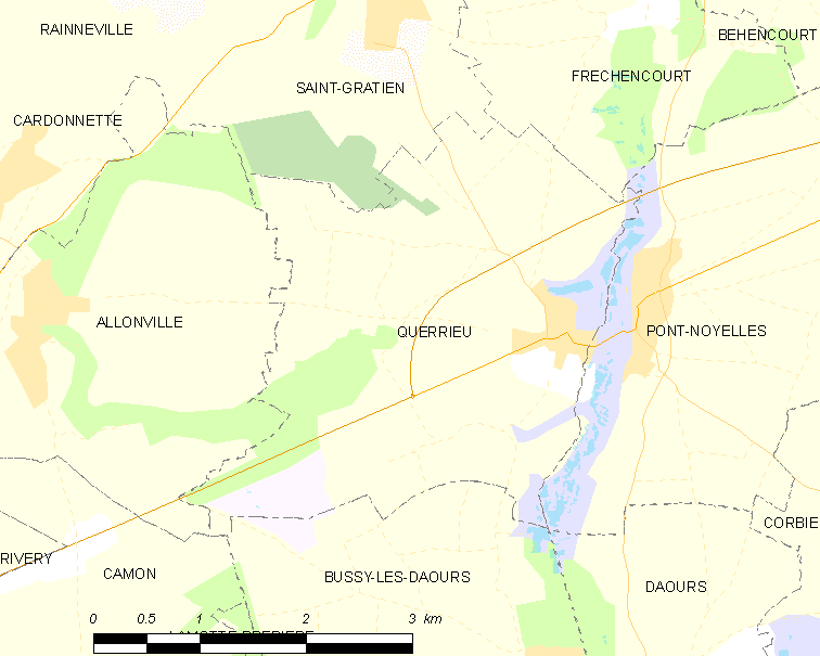 Map of French municipality Querrieu